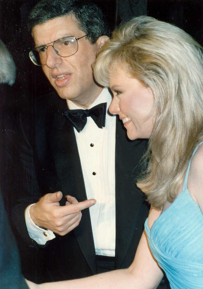 Composer Marvin Hamlisch at the Governor's Ball party after the 1989 Academy Awards, March 29, 1989